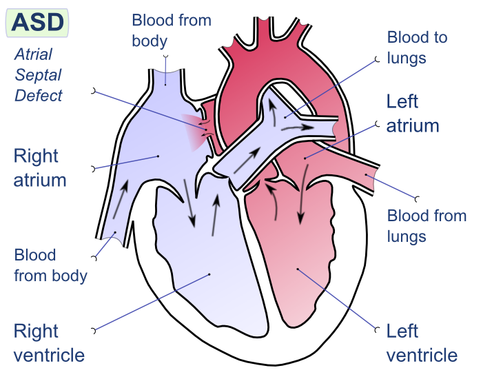 Atrial septal defect (ASD) is a form of congenital heart defect that enables blood flow between the left and right atria via the interatrial septum.